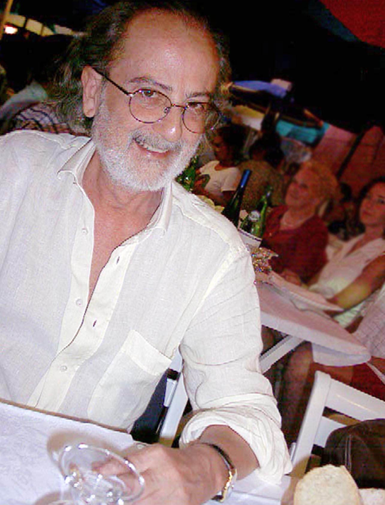 Aldo Rescio, contemporary psychoanalist and author